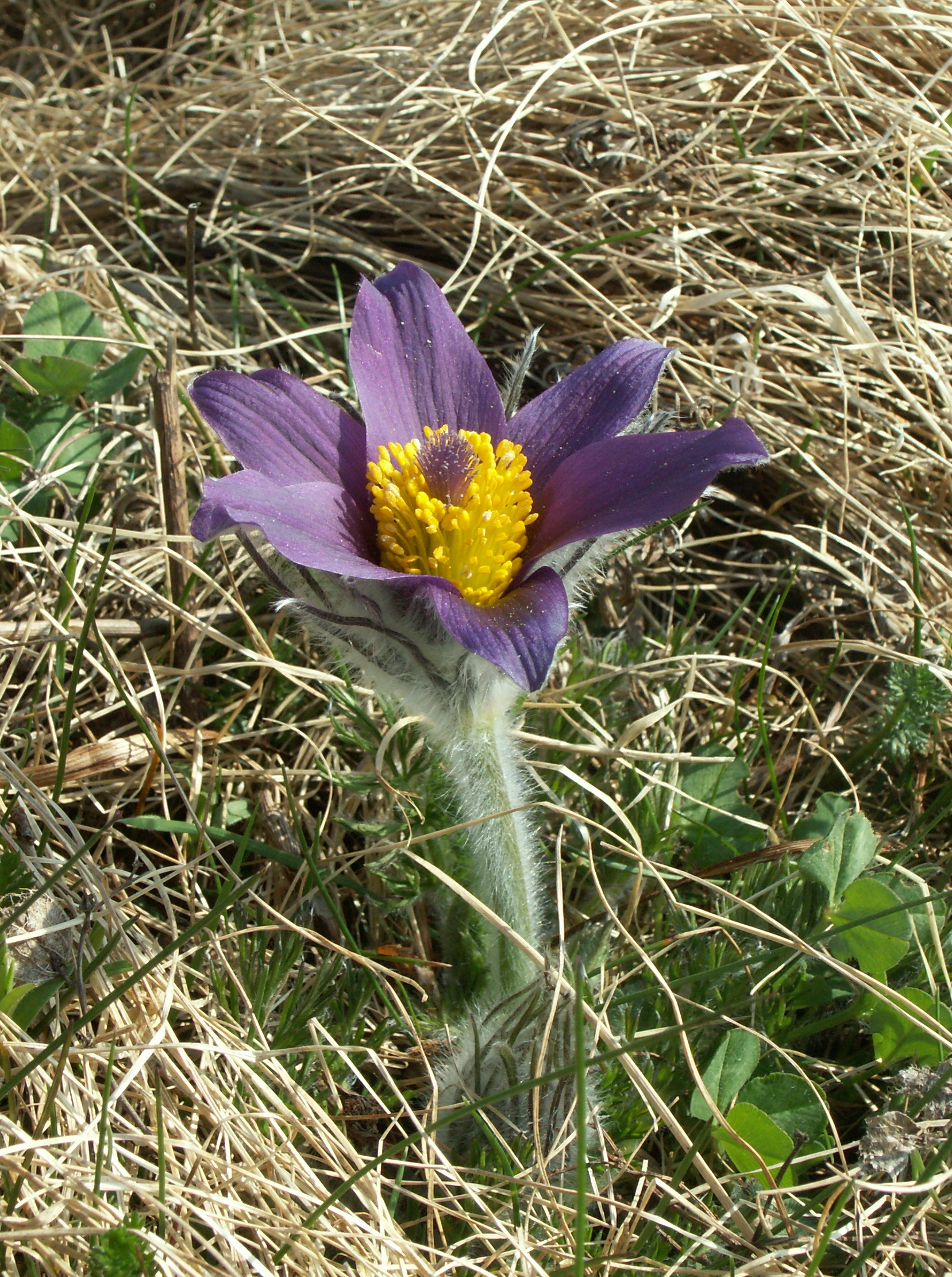 Pulsatilla vulgaris at Fjärås bräcka (south of Göteborg, Sweden), 23 April 2011.